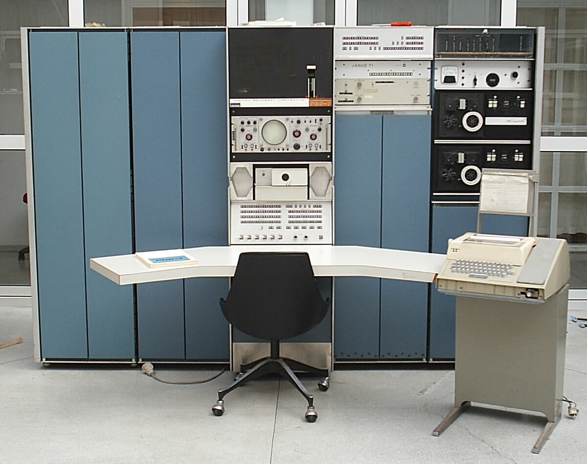 The Oslo PDP-7, before restoration started.